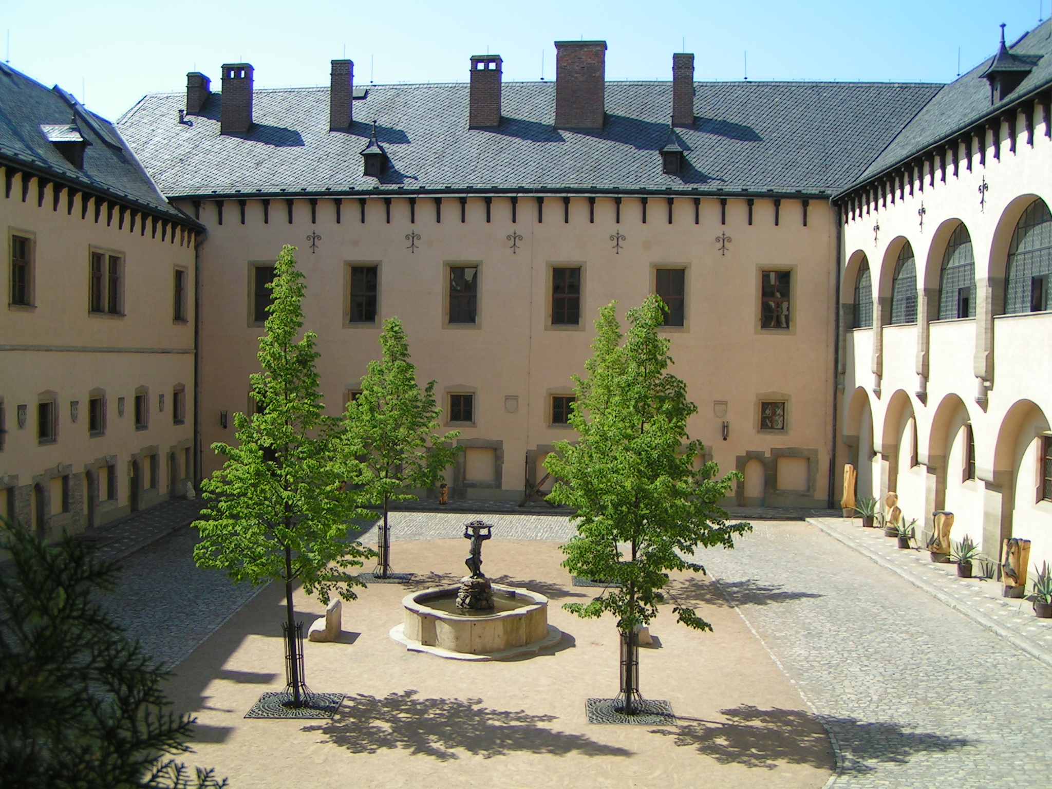 Italian Court courtyard in Kutná Hora, Czech Republic